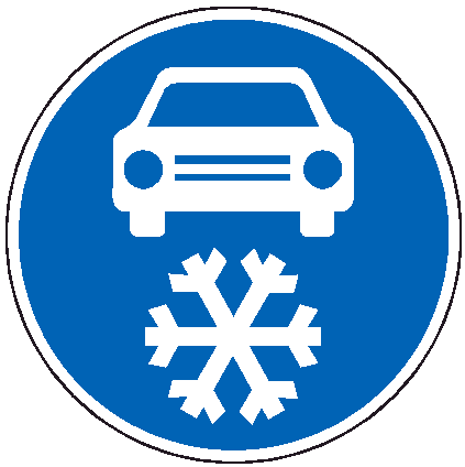 A new Czech road sign (since 2008) which mandates to use winter tires in the Winter season.